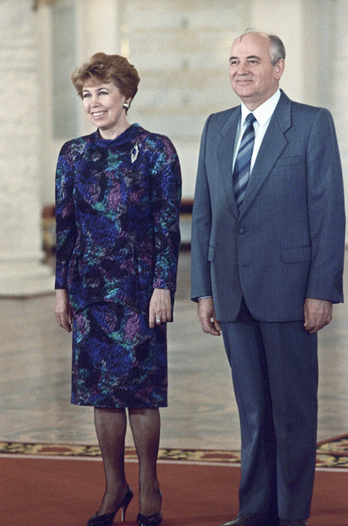 “Mikhail Gorbachev and Raisa Gorbachev seeing off US President Ronald Reagan”. General Secretary of the CPSU Central Committee Mikhail Gorbachev and his spouse Raisa Gorbachev seeing off US President Ronald Reagan after his visit to the USSR. The Hall of St. George in the Grand Kremlin Palace.